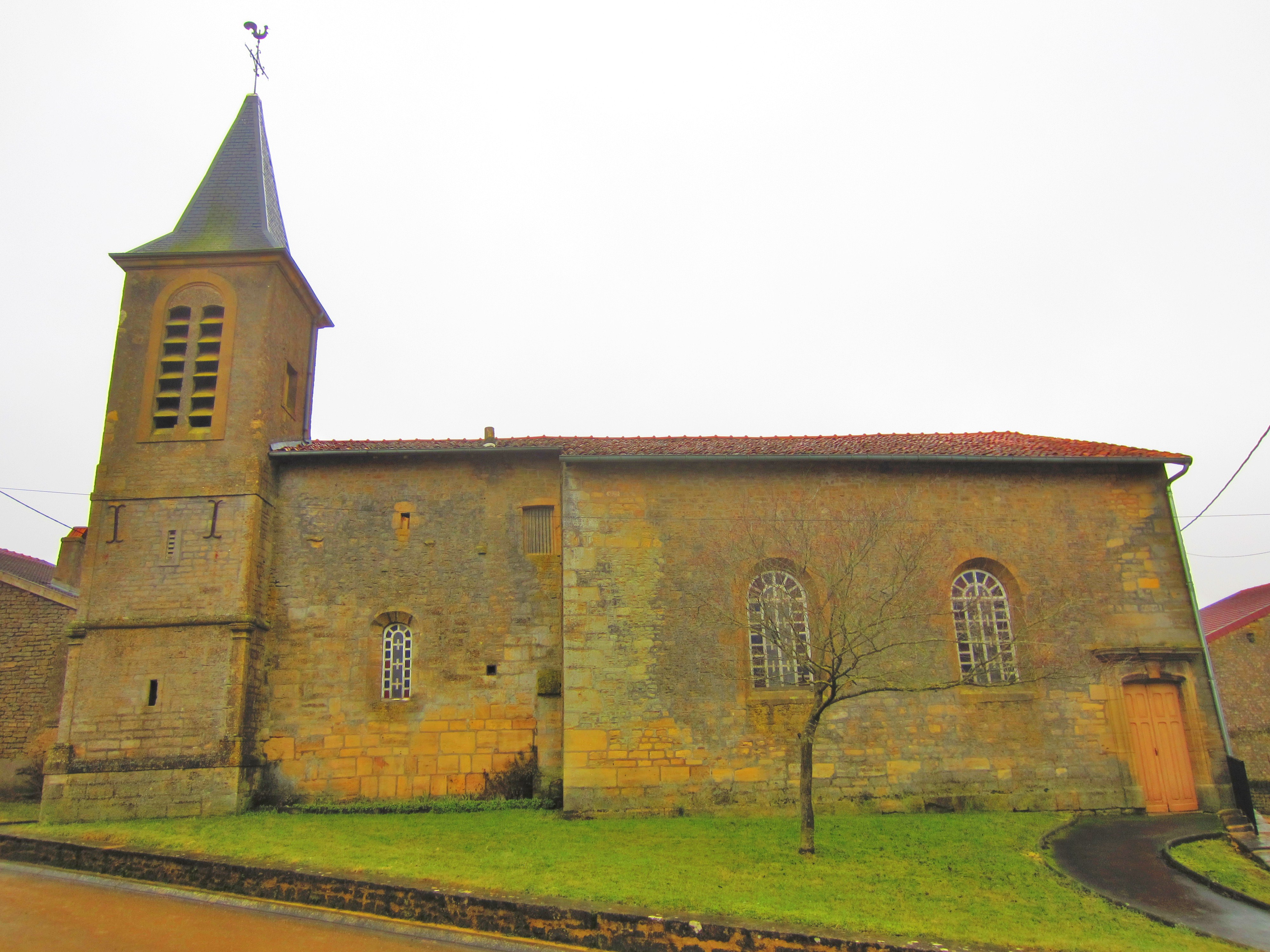 Han Pierrepont church